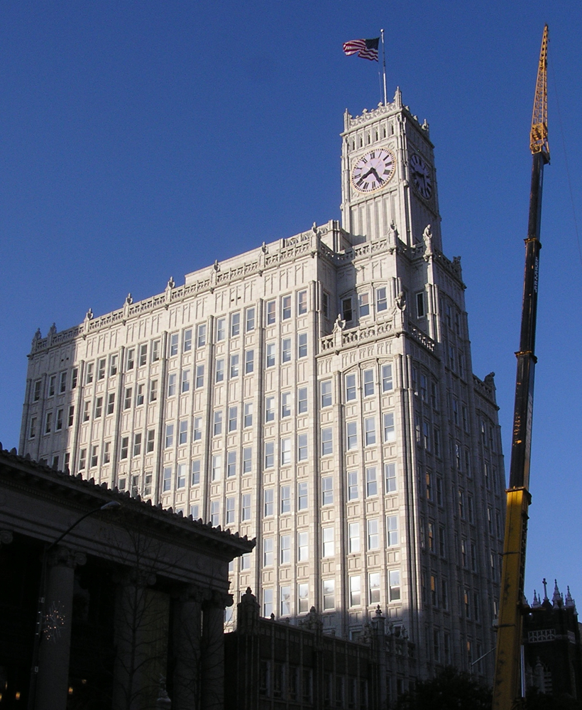 Lamar Life Building; Jackson, Mississippi; December 2009